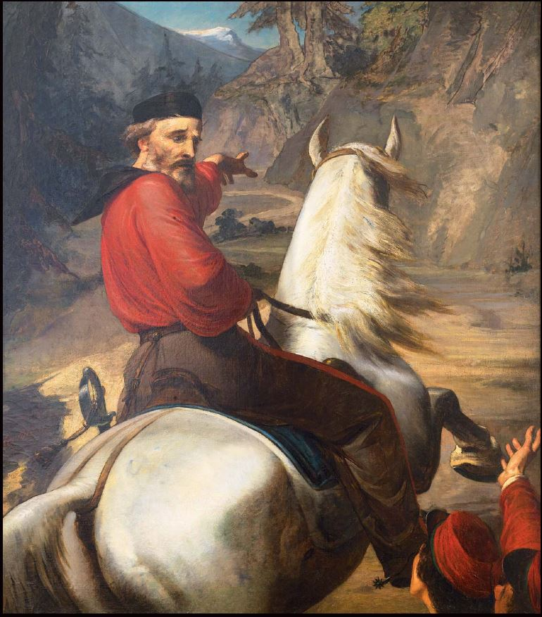 Garibaldi at The Third Italian War of Independence